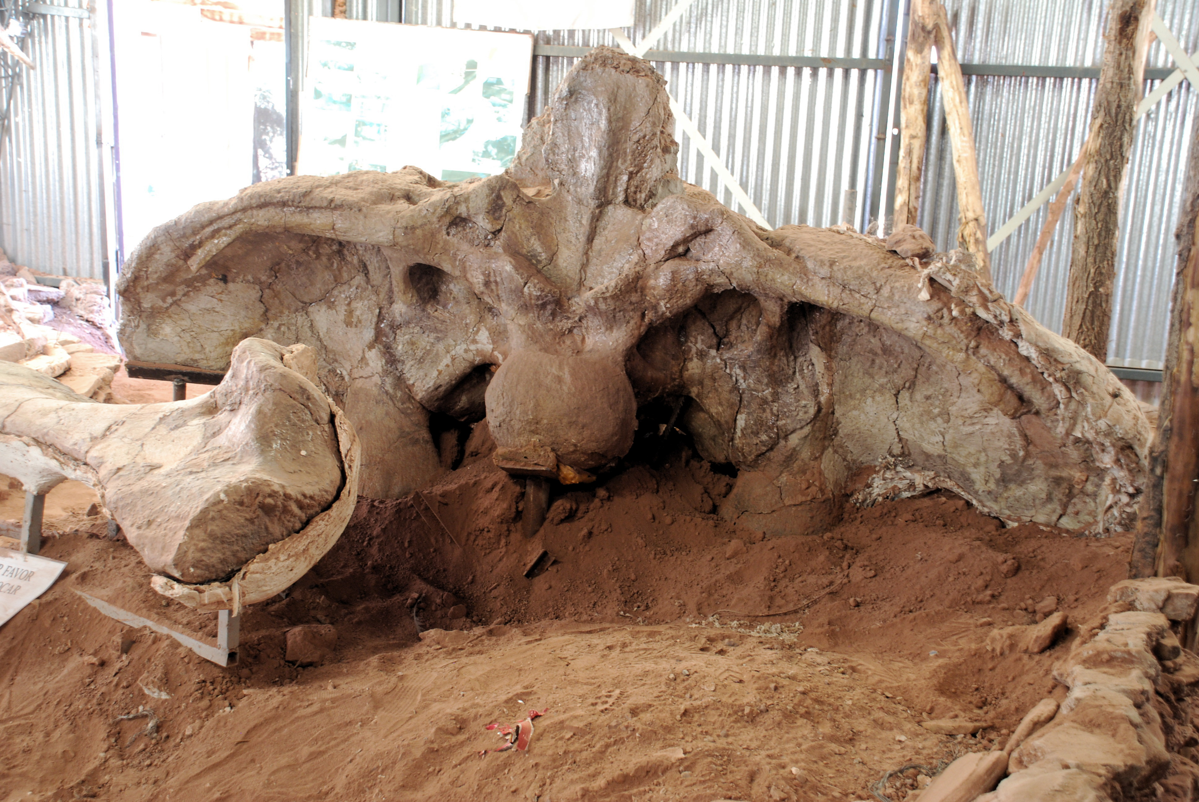 Vertebra of Futalognkosaurus in the laboratory of the Centro Paleontológico Lago Barreales (CEPALB), in the region Neuquén, Argentina